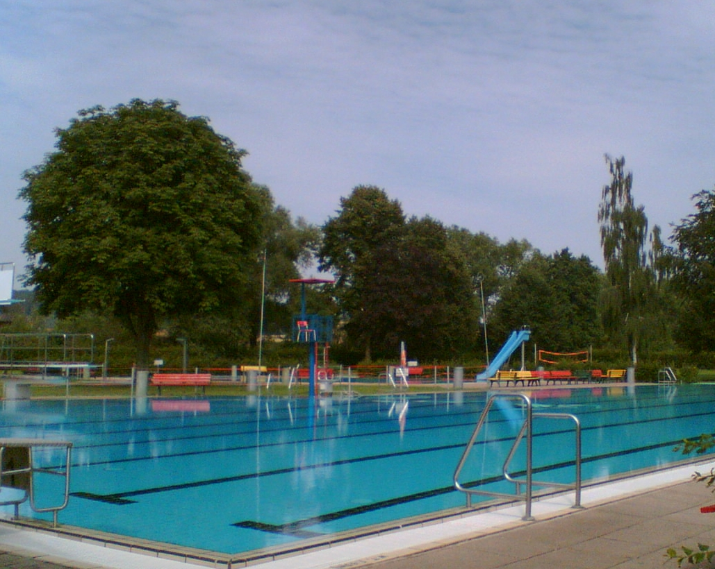 swimming pool in Dassel, Germany. (This pool is heated and has 50 m lanes.)